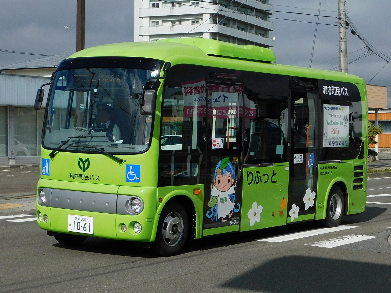 Rifu town bus (Rifu,Miyagi) Hino Poncho